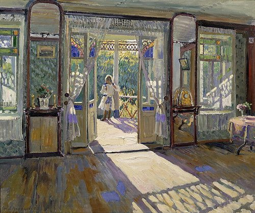 In a House oil on canvas